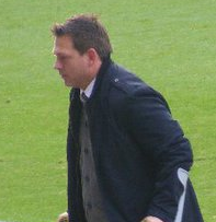 image of Pontus Kamark